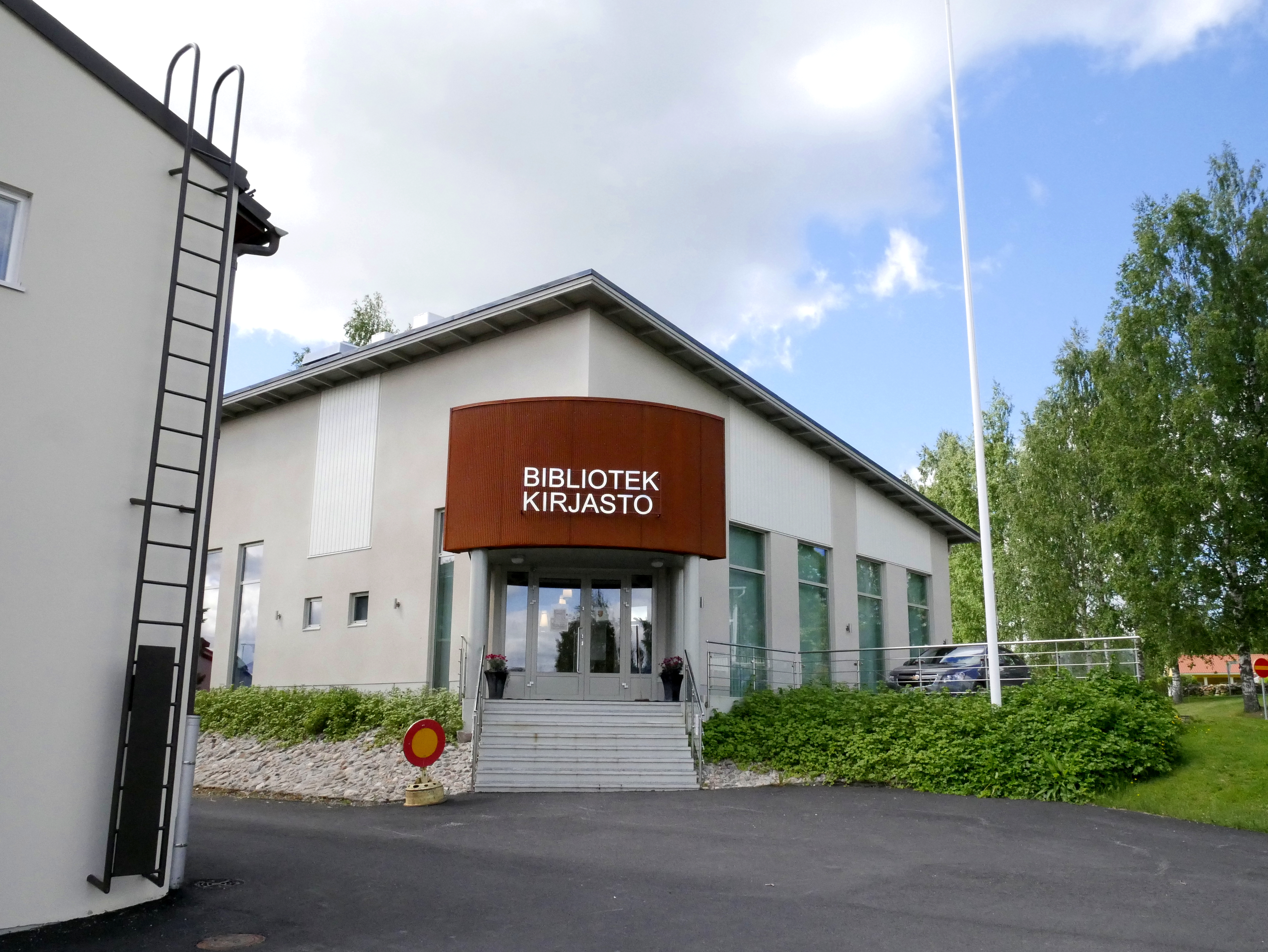 Teerijärvi library.